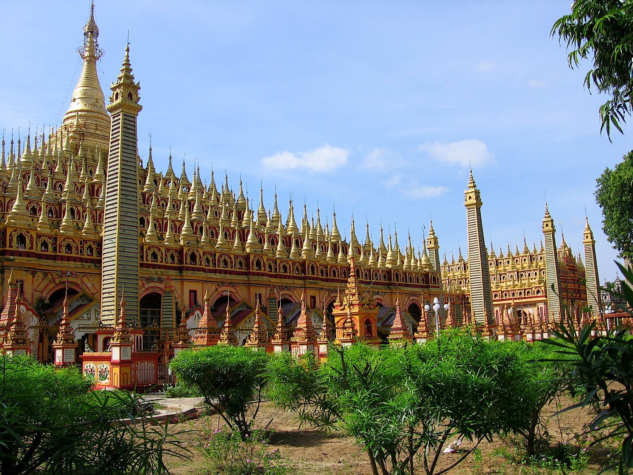 Thanboddhay paya, near Monywa, Myanmar.